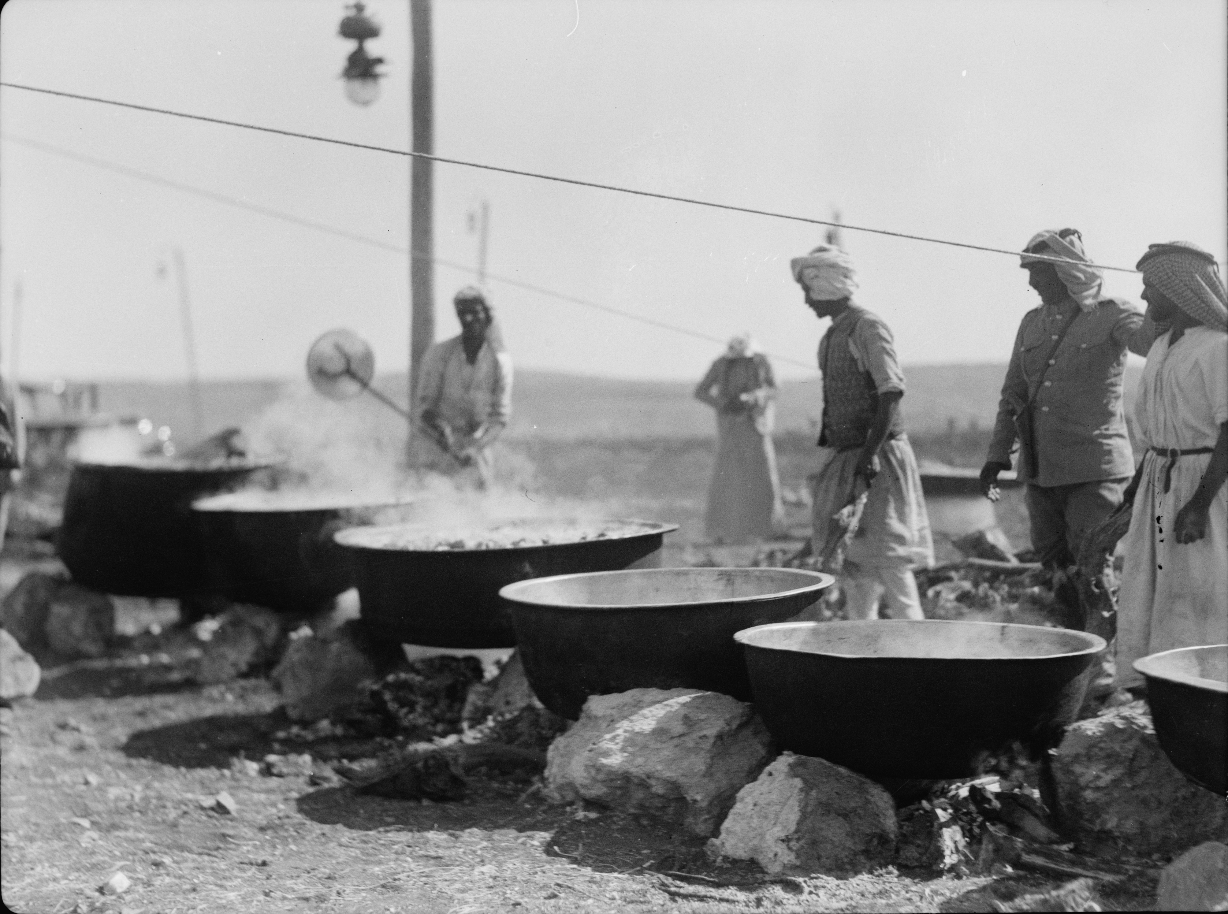 Several men cook mutton and camel meat in six cauldrons using an oversized spatula. The cauldrons are fixed with stones and heated by fire.